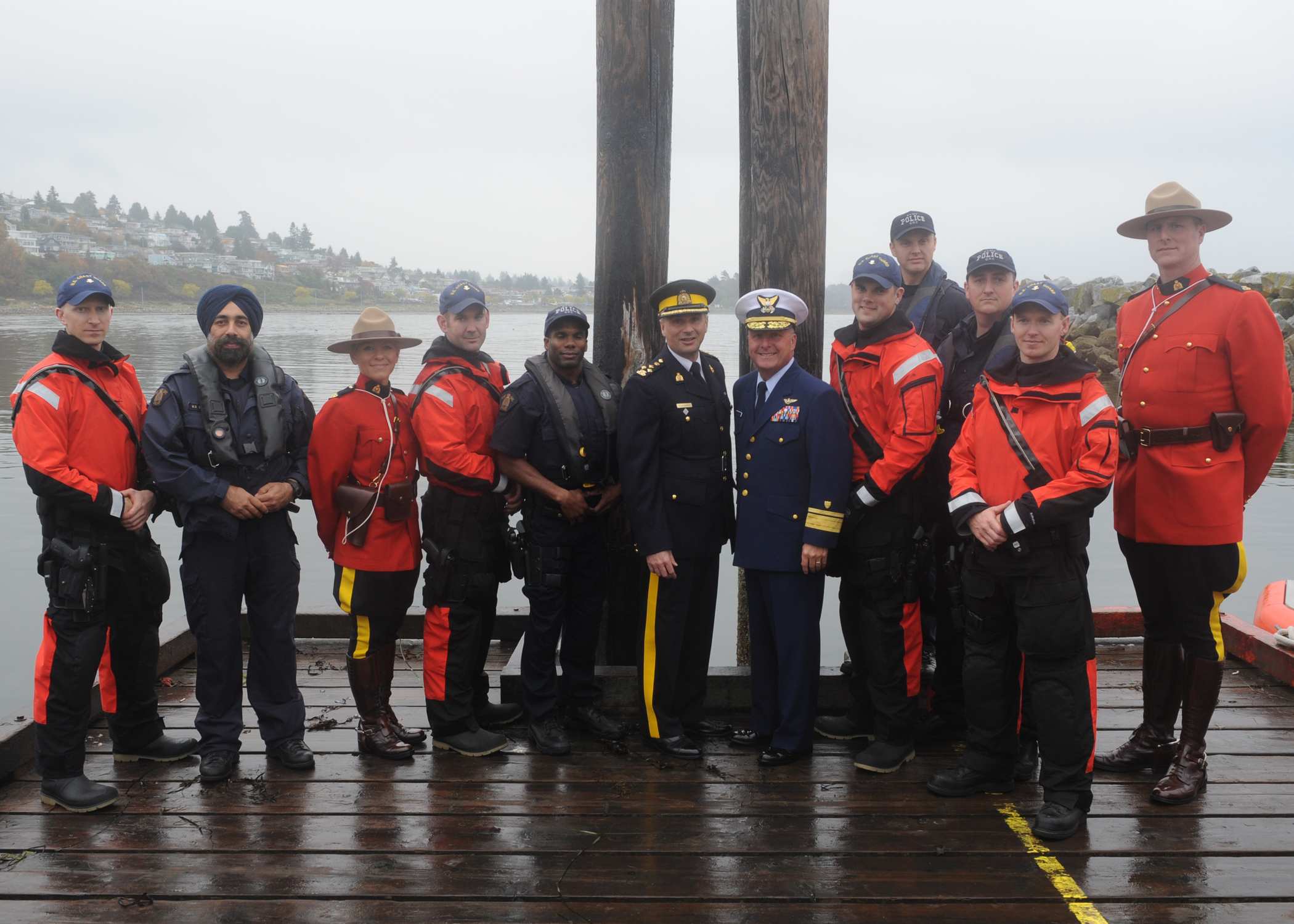 Rear Adm. Keith Taylor (center, right), commander of the 13th Coast Guard District, and Assistant Commissioner Todd Shean (center, left), Royal Canadian Mounted Police, stand with U.S. Coast Guard and RCMP law enforcement officers that have been specially trained and designated to conduct cross-border maritime law enforcement operations, on the White Rock Pier in White Rock, British Columbia, Canada, Oct. 12, 2012. Taylor, Shean and other U.S. and Canadian government and law enforcement officials announced that the Vancouver/Blaine, Wash., area will be home to one of the first regularized locations of the integrated cross-border maritime law enforcement operations known as Shiprider. U.S. Coast Guard photo by Petty Officer 2nd Class George Degener.